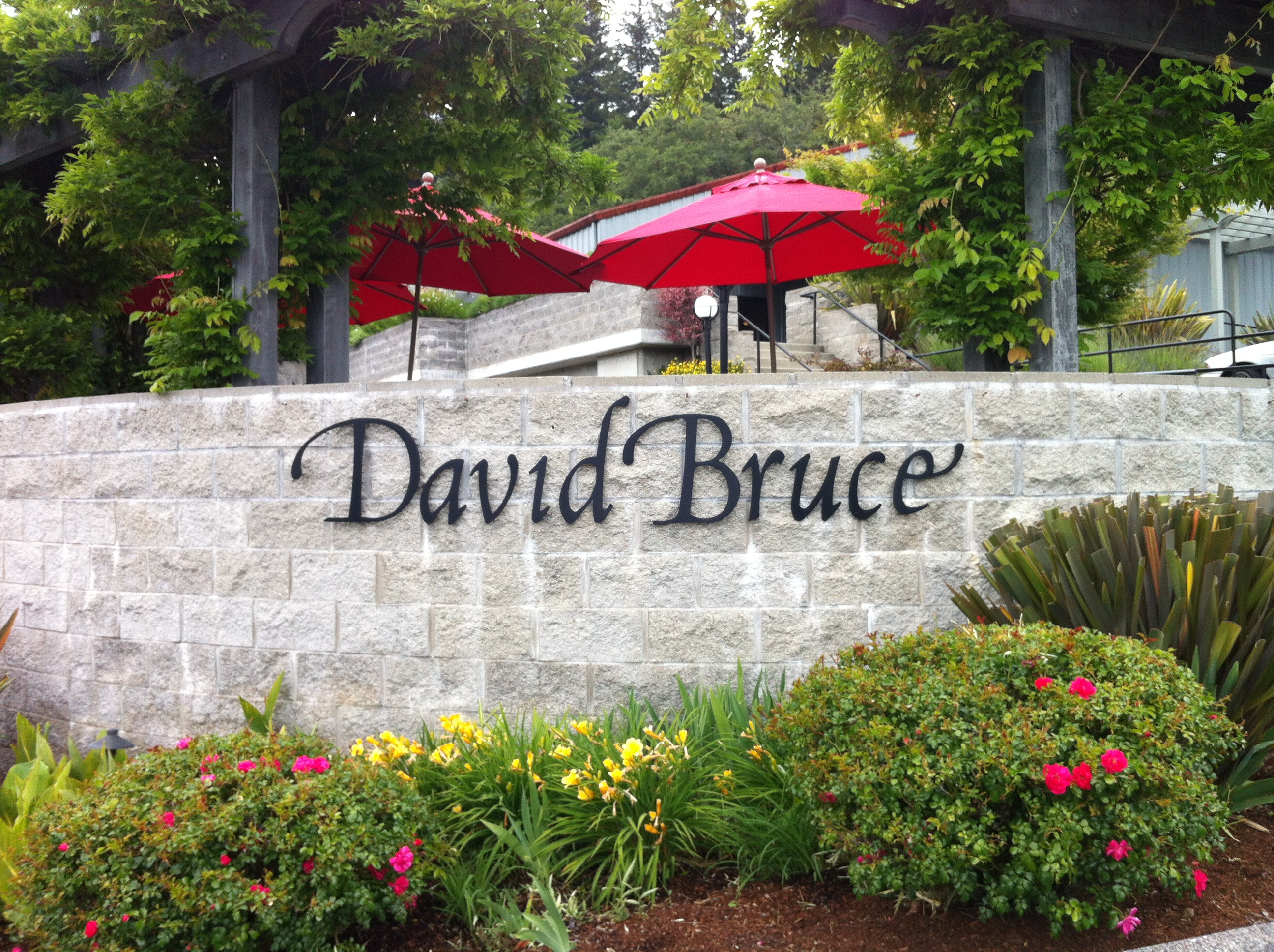 Exterior entrance to the California winery David Bruce in Los Gatos in the Santa Cruz Mountain AVA